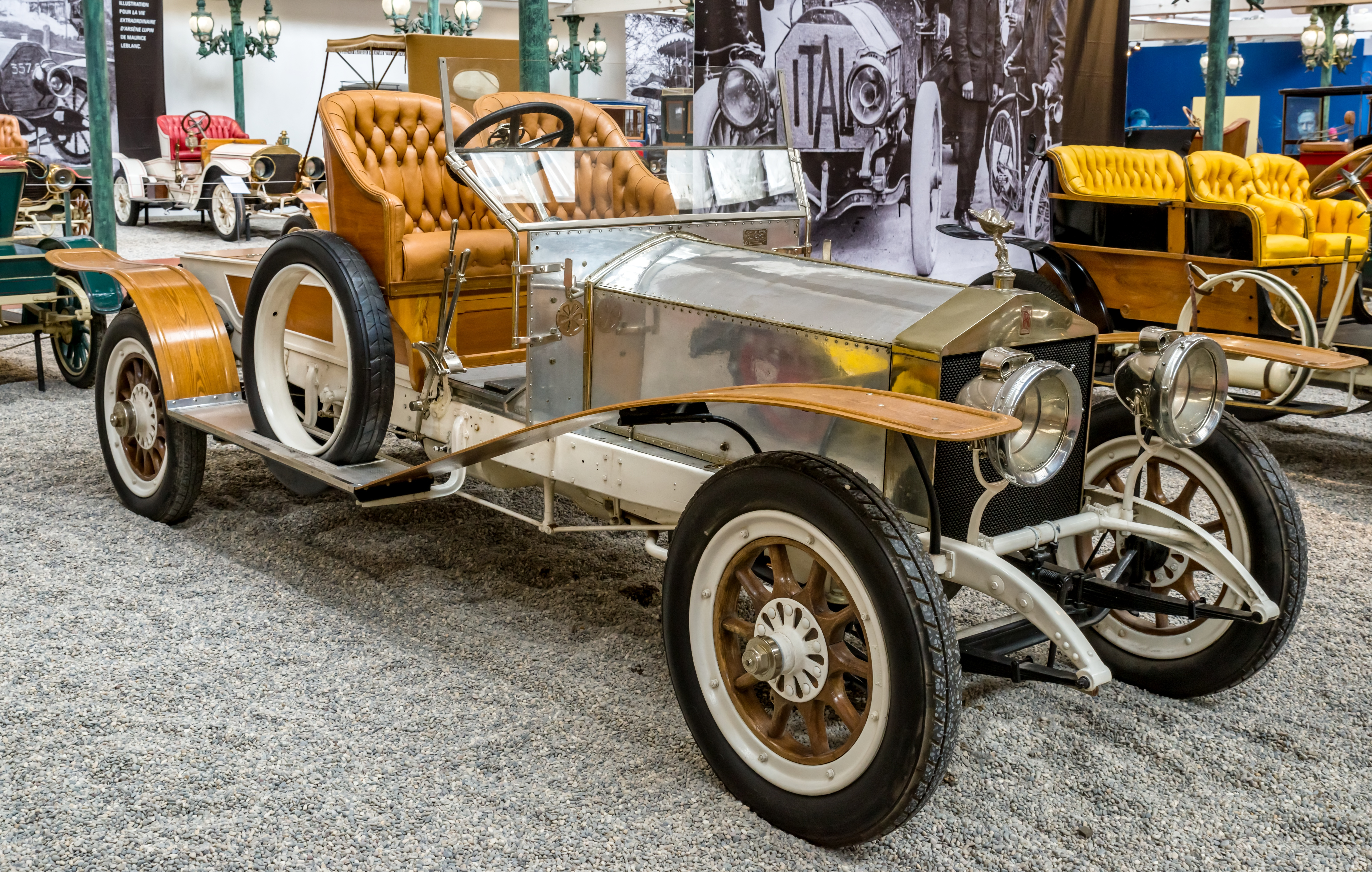 pictures from the Cité de l’Automobile – Musée National – Collection Schlump in Mulhouse, France ptictures from the 10. may 2018